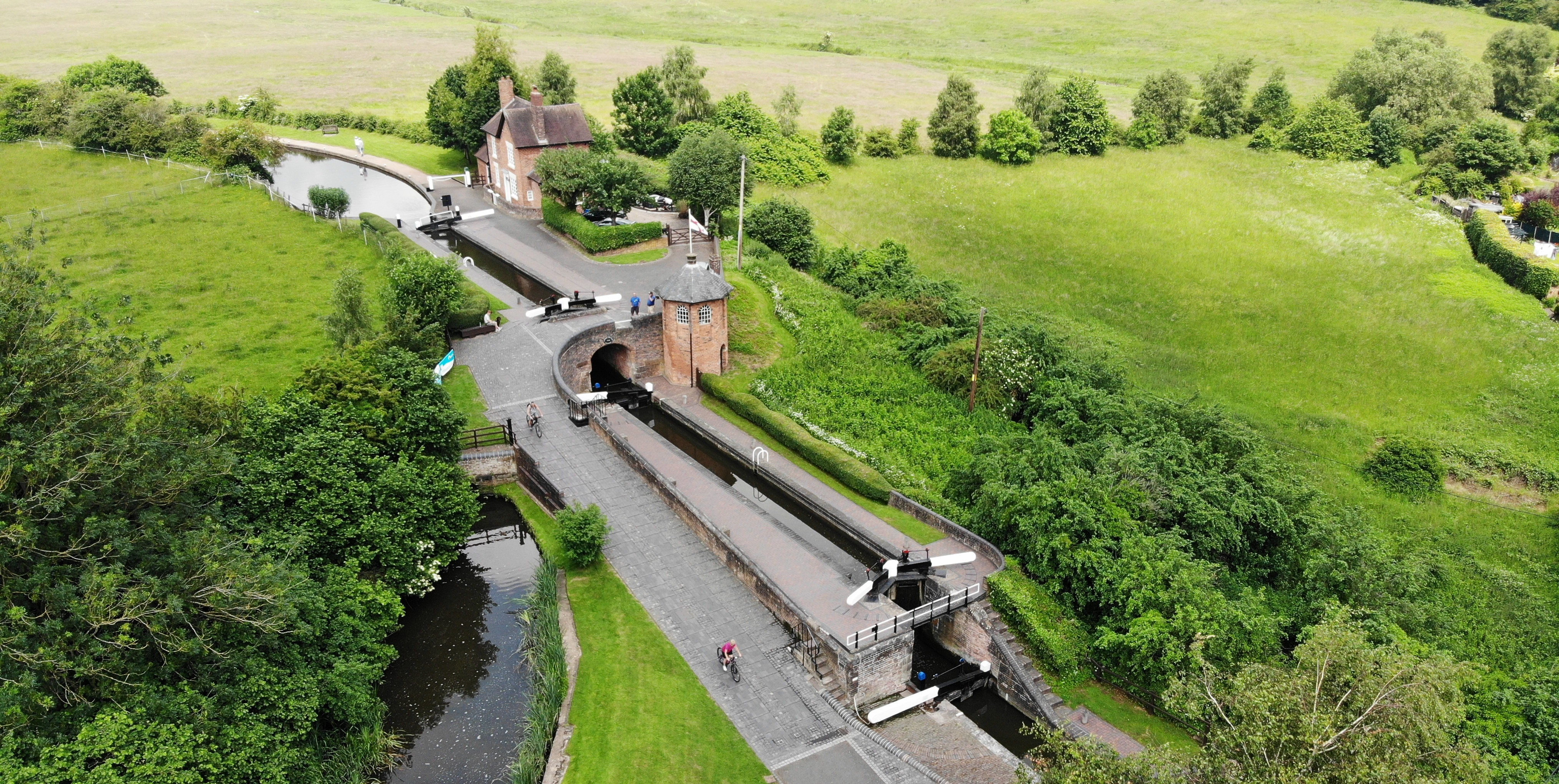 Birds Eye View of Bratch Locks